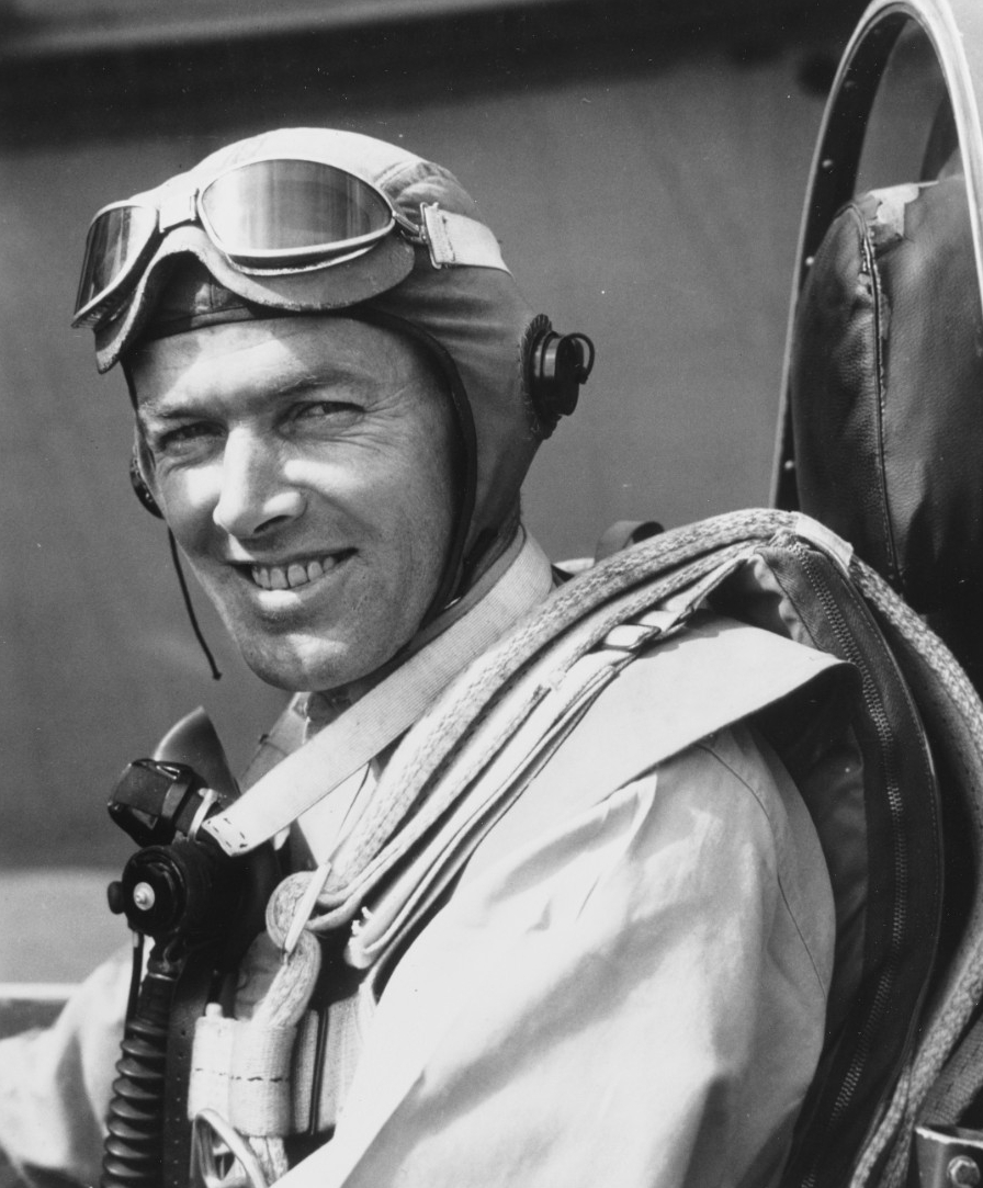 Flatley [then Commander] in the cockpit of a Grumman F6F-3 Hellcat on board USS Yorktown (CV-10), October 1943. Flatley is wearing a M-450 pilot helmet and AN6530 goggles.